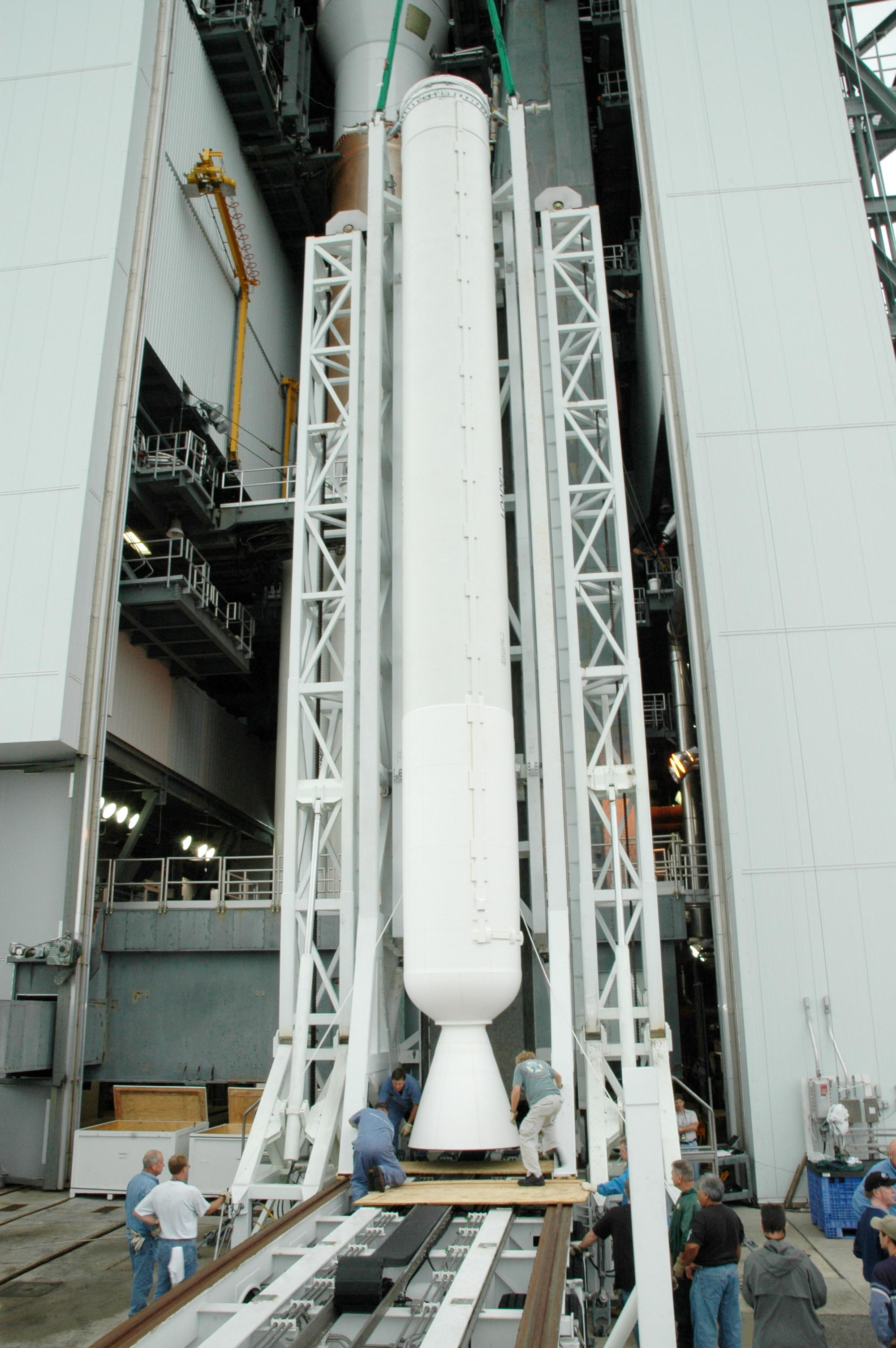 KENNEDY SPACE CENTER, FLA. – On Launch Complex 41 at Cape Canaveral Air Force Station in Florida, the fifth and final solid rocket booster is raised to a vertical position. It will be lifted into the Vertical Integration Facility and added to the other four already mated to the Lockheed Martin Atlas V rocket there. The Atlas V is the launch vehicle for the Pluto-bound New Horizons spacecraft that will make the first reconnaissance of Pluto and its moon, Charon - a "double planet" and the last planet in our solar system to be visited by spacecraft. As it approaches Pluto, the spacecraft will look for ultraviolet emission from Pluto's atmosphere and make the best global maps of Pluto and Charon in green, blue, red and a special wavelength that is sensitive to methane frost on the surface. It will also take spectral maps in the near infrared, telling the science team about Pluto's and Charon’s surface compositions and locations and temperatures of these materials. When the spacecraft is closest to Pluto or its moon, it will take close-up pictures in both visible and near-infrared wavelengths. The mission will then visit one or more objects in the Kuiper Belt region beyond Neptune. New Horizons is scheduled to launch in January 2006, swing past Jupiter for a gravity boost and scientific studies in February or March 2007, and reach Pluto and Charon in July 2015.